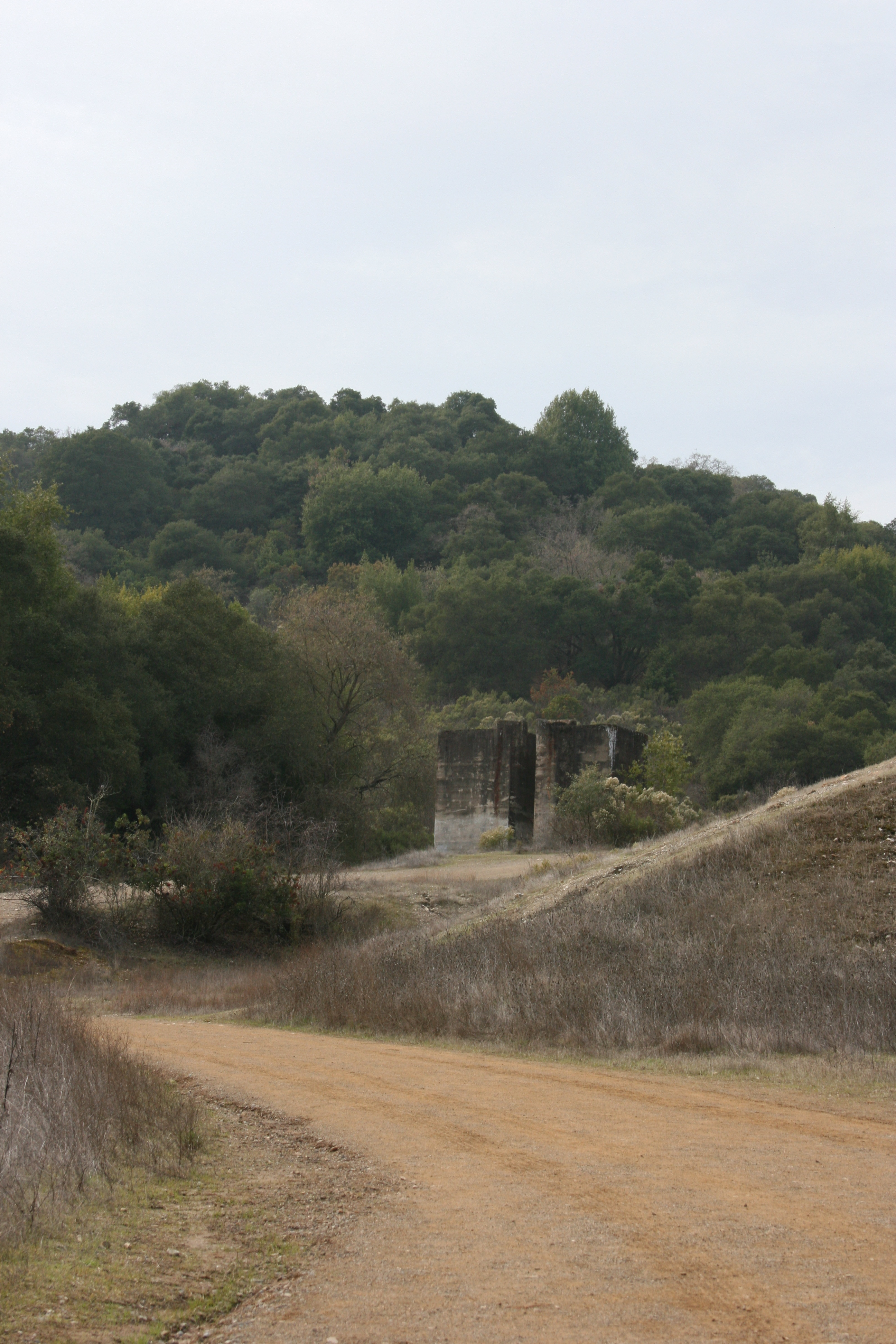 Personal photo.